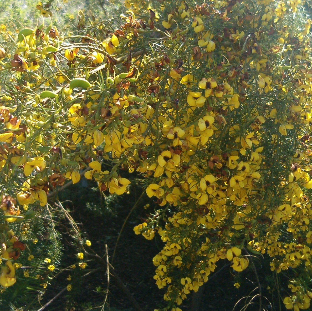 At Kirstenbosch National Botanical Gardens Species Cyclopia meyeriana